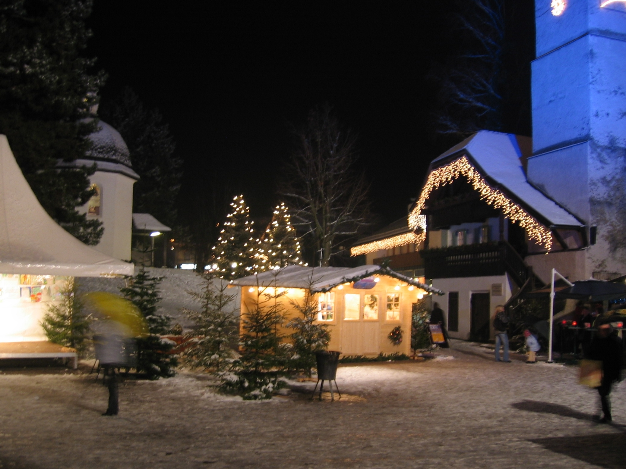 Evening scene in Silent Night district in Oberndorf bei Salzburg, Austria Photography by Gakuro